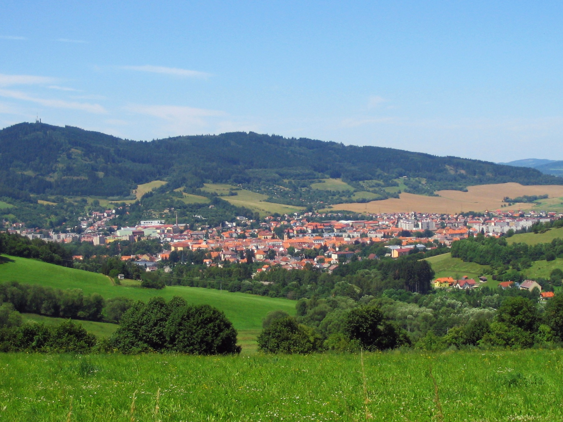 View of Sušice nearly from the east, Plzeň Region, Czech Republic